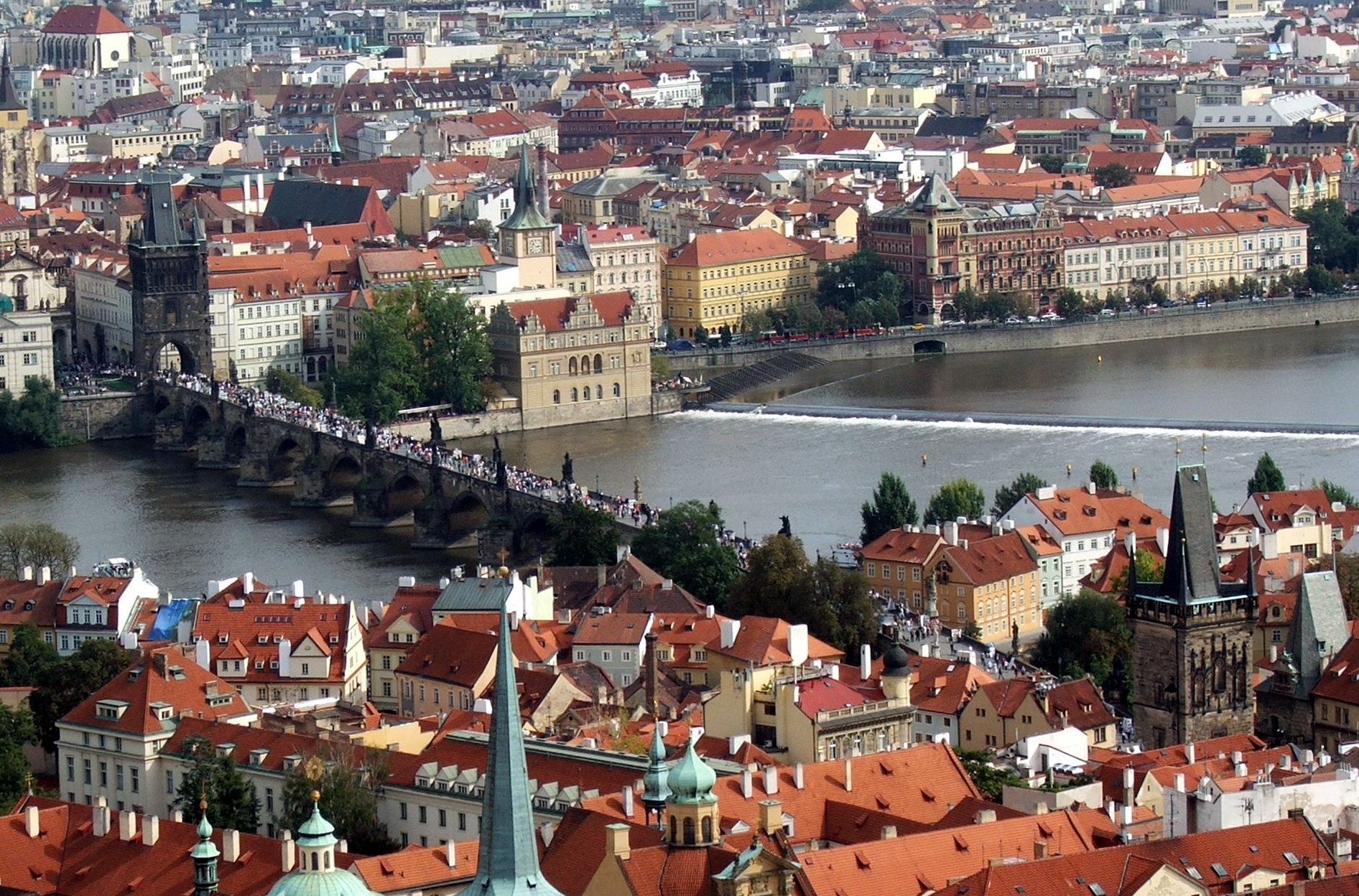 Charles Bridge in Prague from cathedral tower.